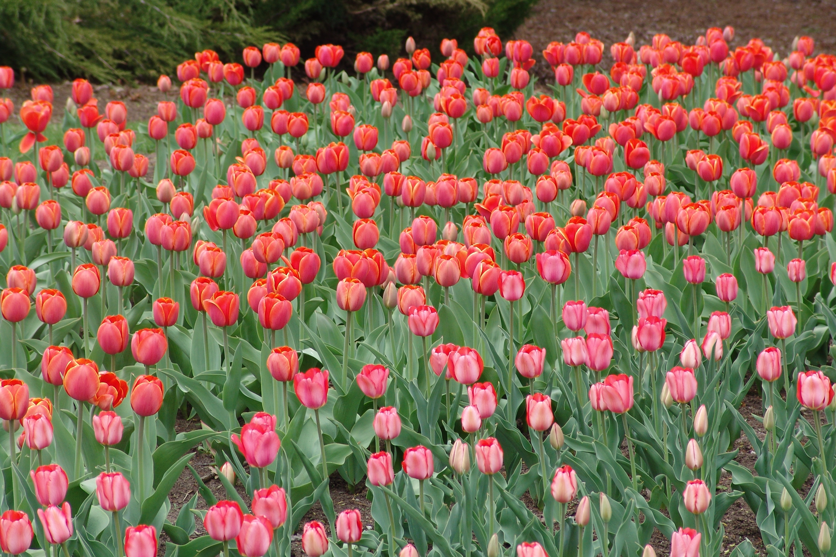 A bed of tulips during the Ottawa Tulip Festival. Major's Hill Park, Ottawa.